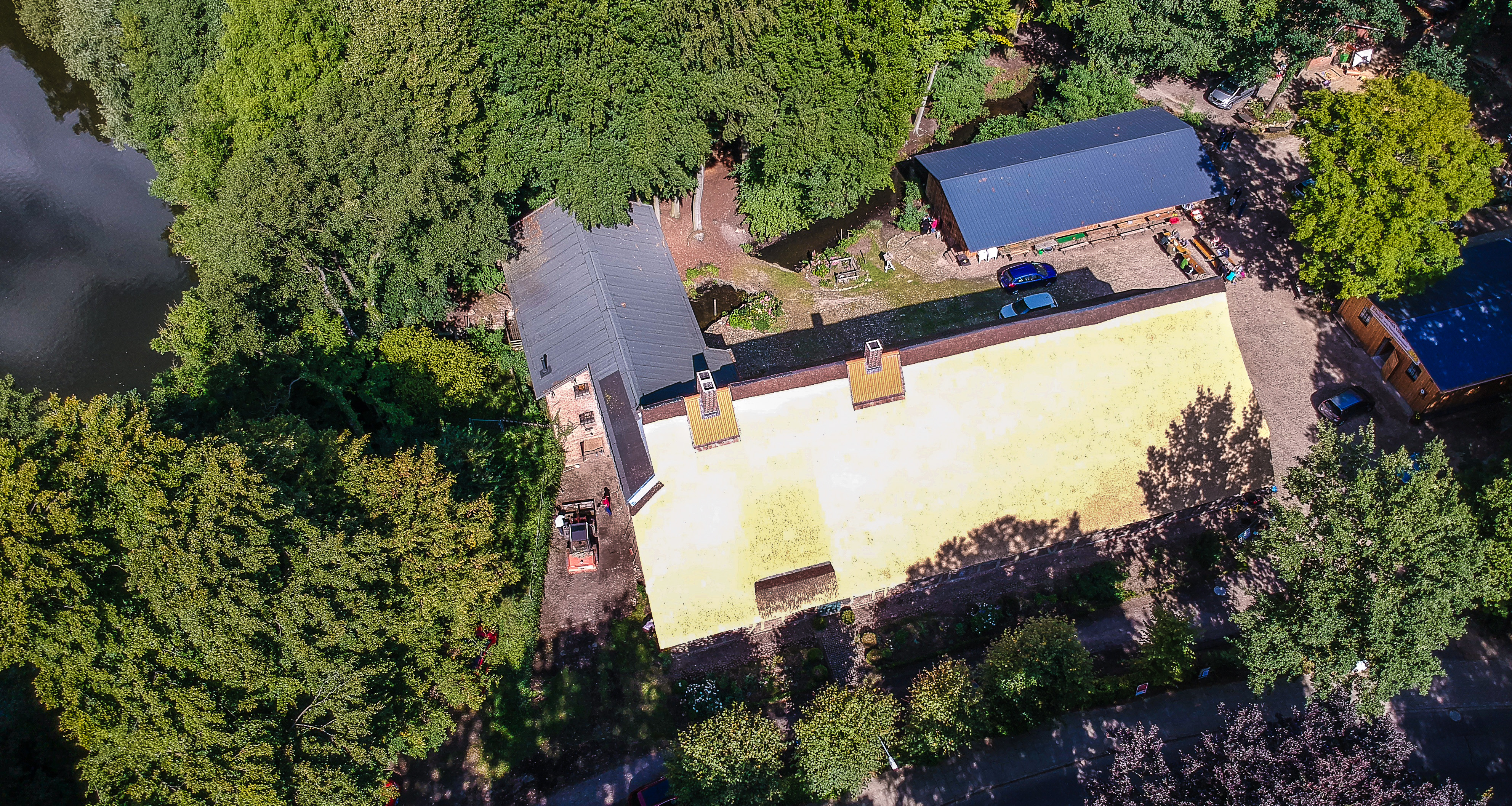 Gesamtheit des Gebäude Ensembles